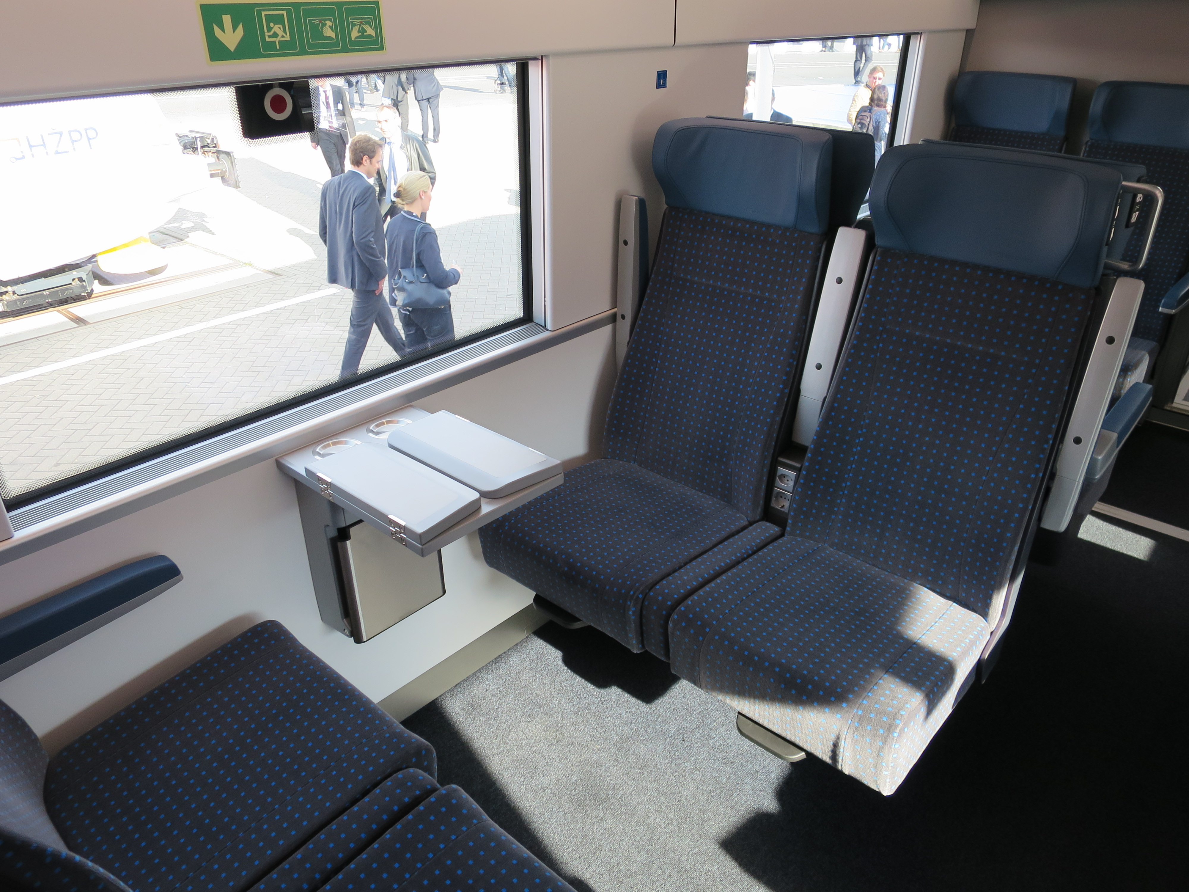 InnoTrans 2016 The making of this document was supported by Wikimedia Polska Association, within Wikigrant no. WG 2016-35.